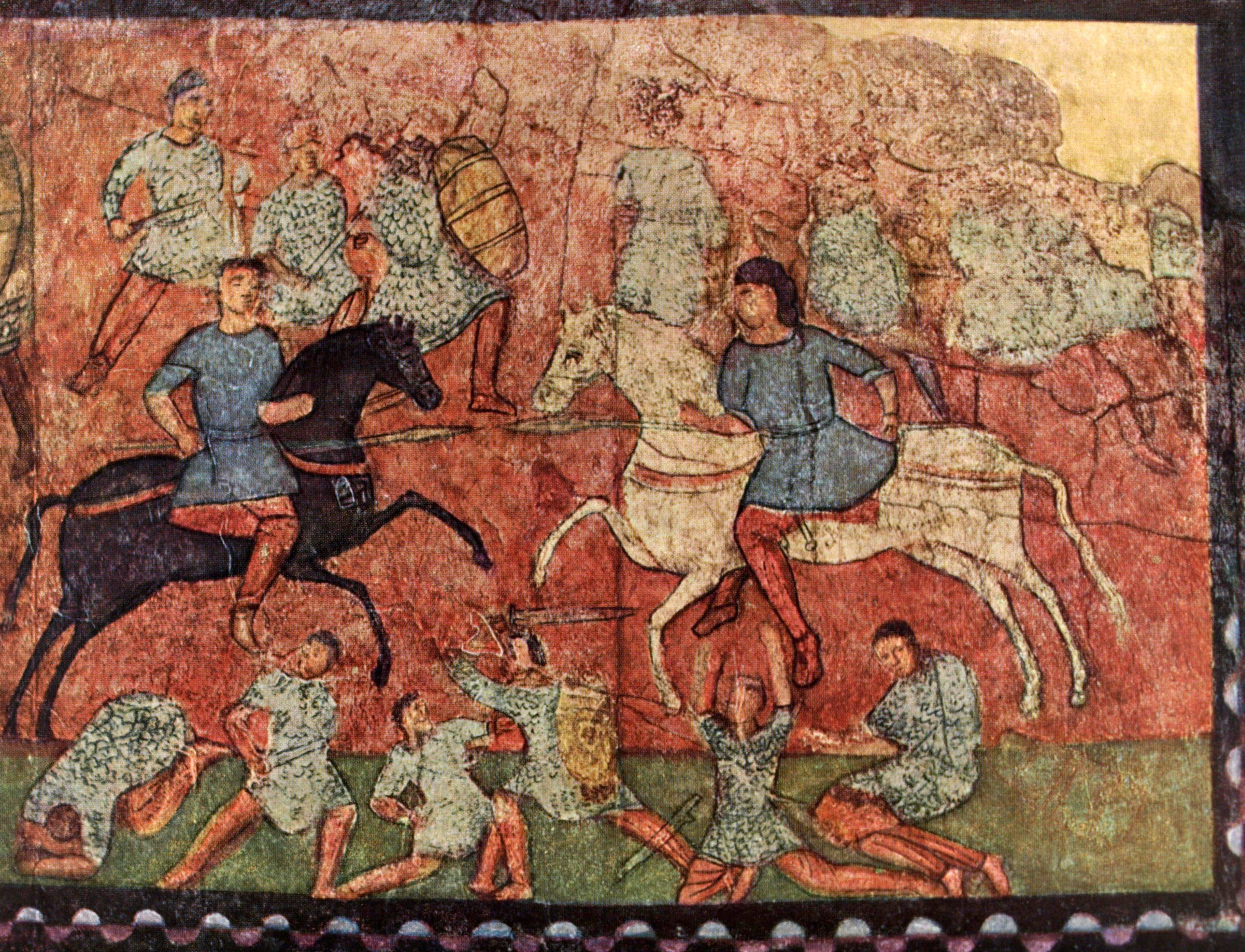 Wall painting in the Dura Europos synagogue, North wall, B register : the battle of Eben Ezer, right part.